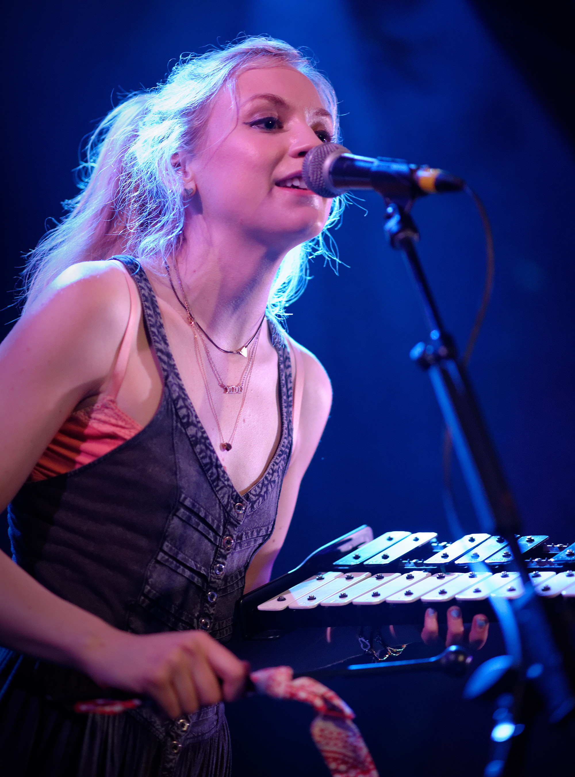 Emily Kinney performing live at the Troubadour in West Hollywood (Los Angeles) California on Wednesday June 24th, 2015. This was the sold out tour finale for Emily's "This Is War" tour.